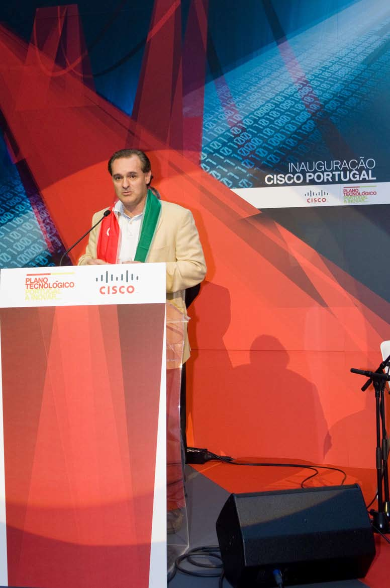 Helder Antunes delivering speech at Cisco Portugal Inauguration 2008, Oeiras